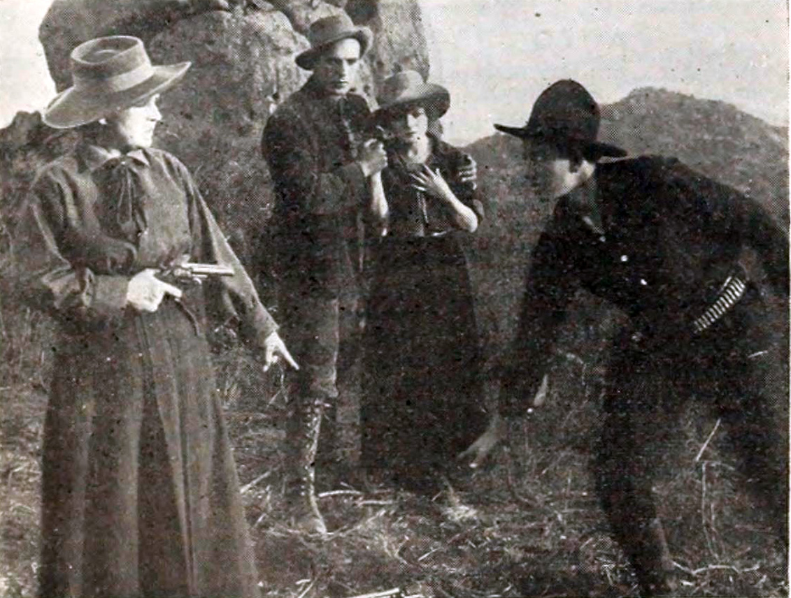 Illustration from an article in The Moving Picture World for the American western film Pay Dirt (1916) with Marguerite Nichols and Henry King.